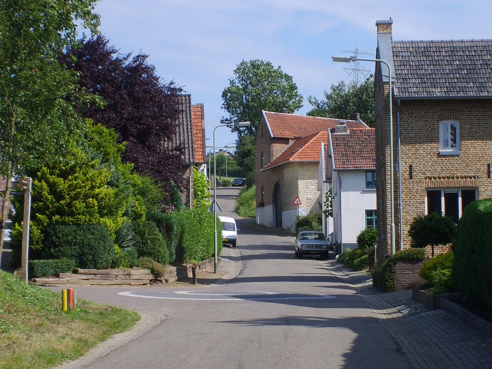 Street in Walem, a hamlet in southern Limburg, Netherlands